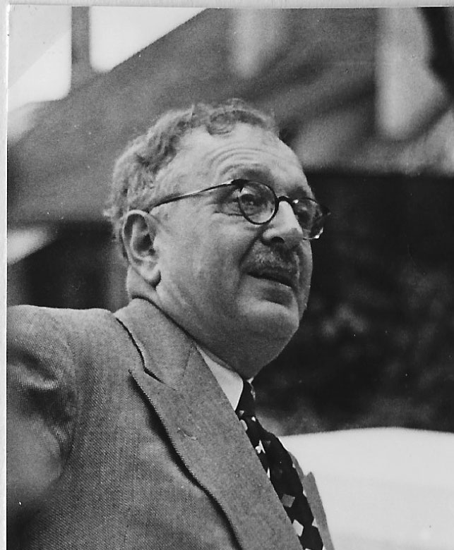 Paul LachenalPresident of the Gran Councel in Geneva,Foto taken by a family member at the engagement of Elisabth Werner, daughter of Paul Lachenal, at Lachenal's residence "La Pelouse" in Geneva